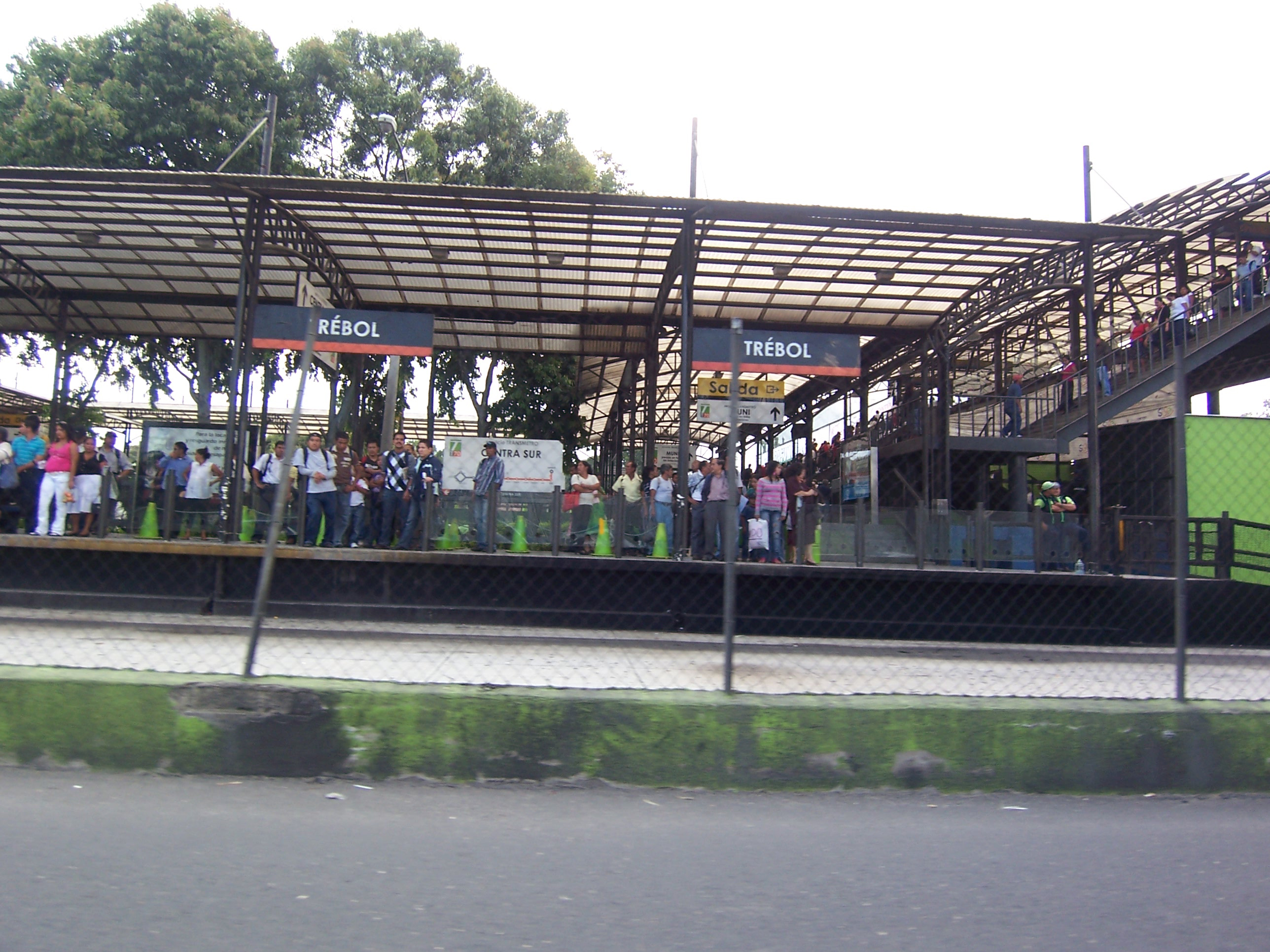 bus stop Trebol, Guatemala